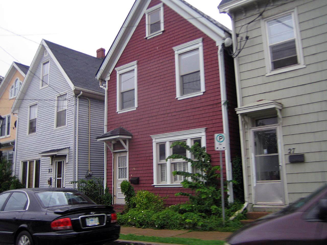 Charlottetown, from the car.